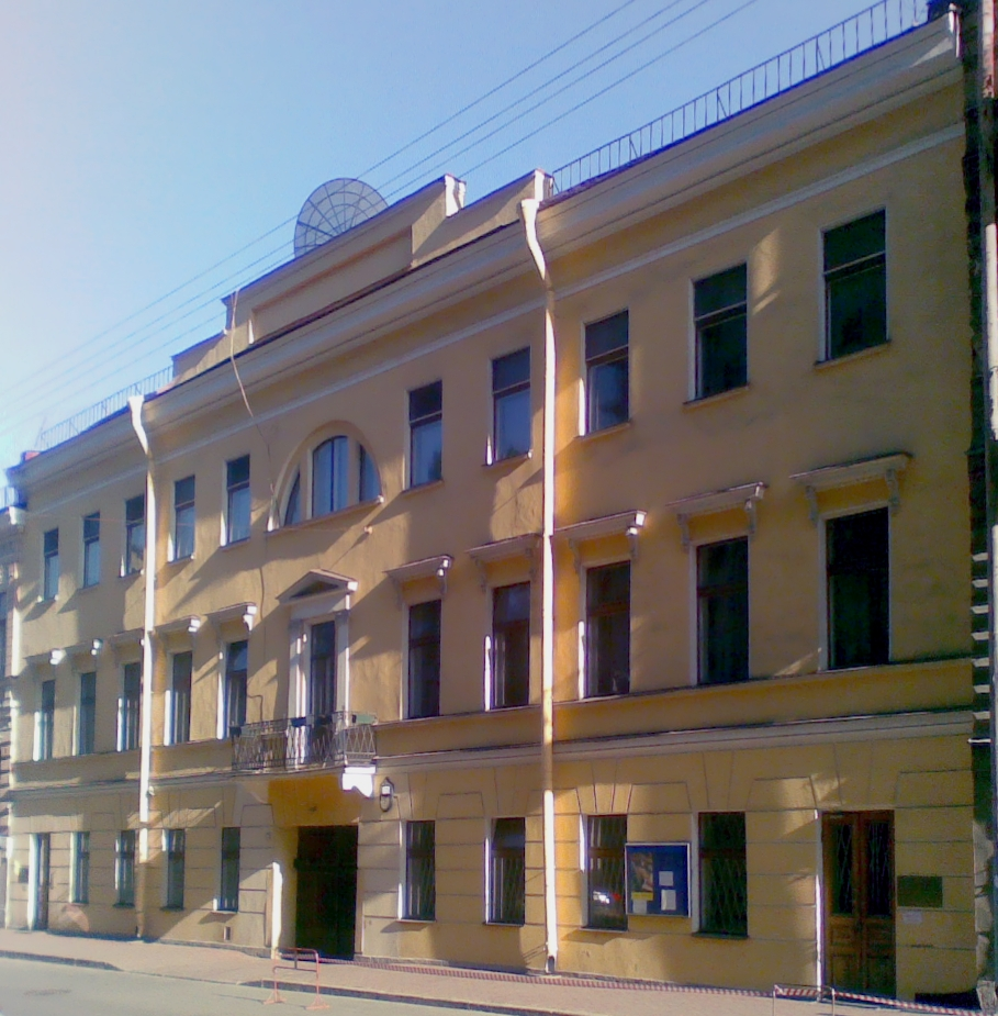 Consulate-General of India in Saint Petersburg (191123, Ryleeva Street, b. 35)